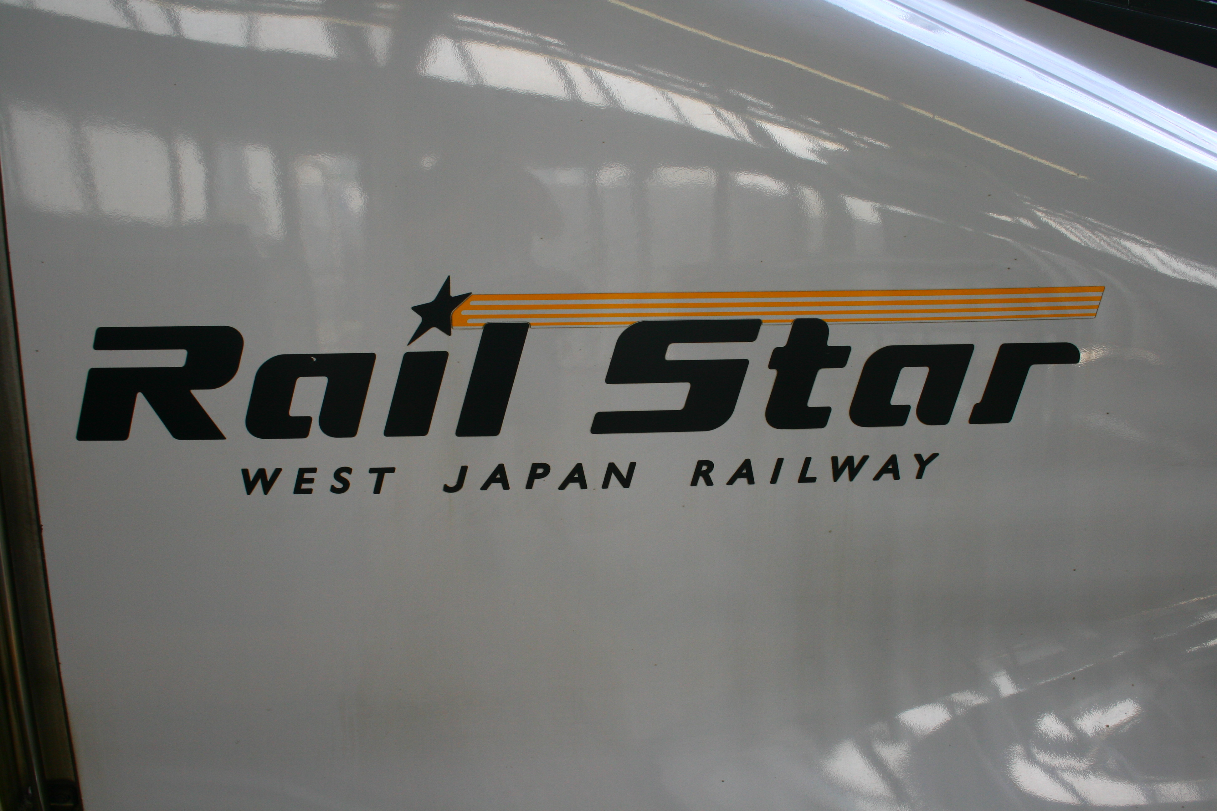 Hikari Rail Star logo